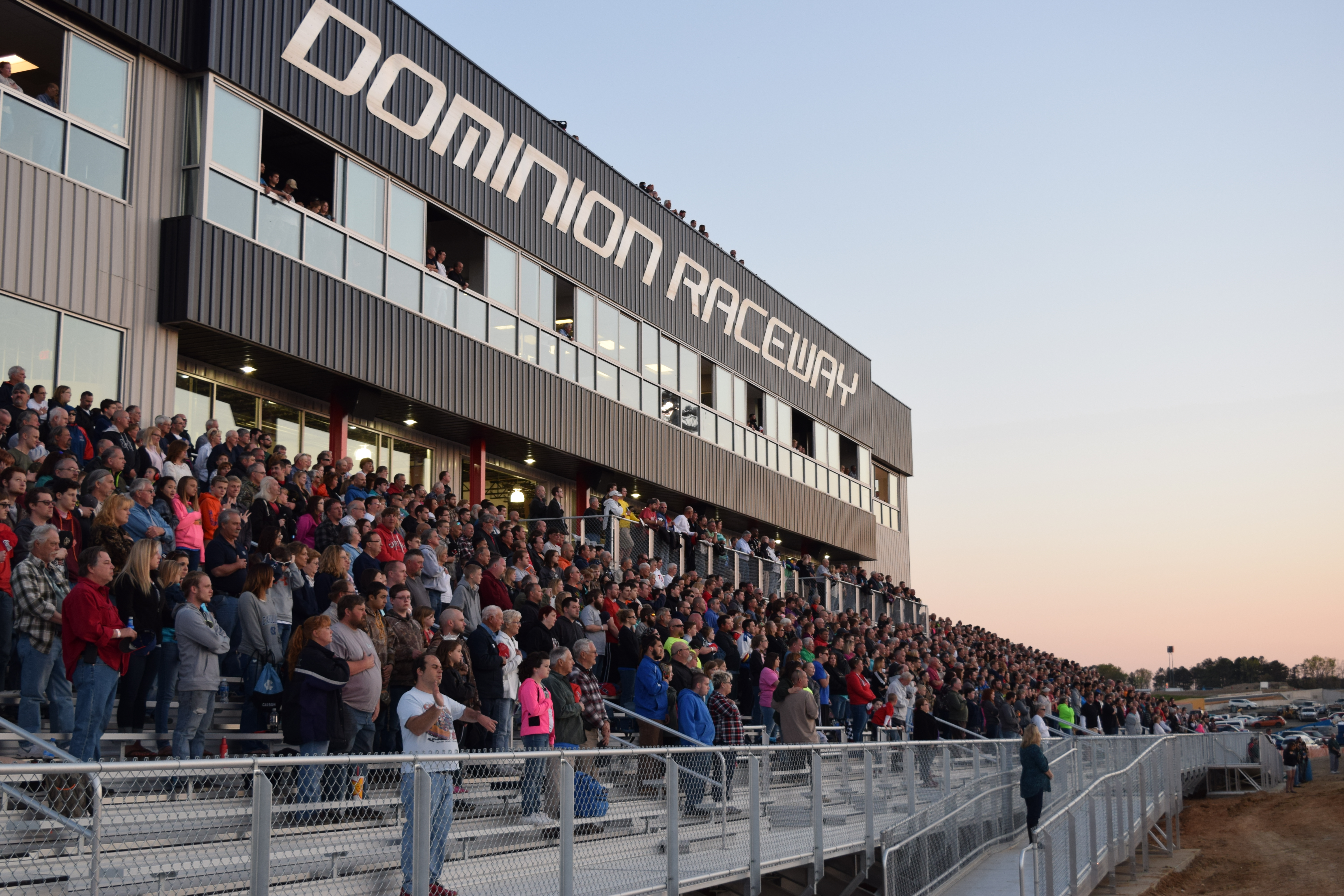 Dominion Raceway & Entertainment